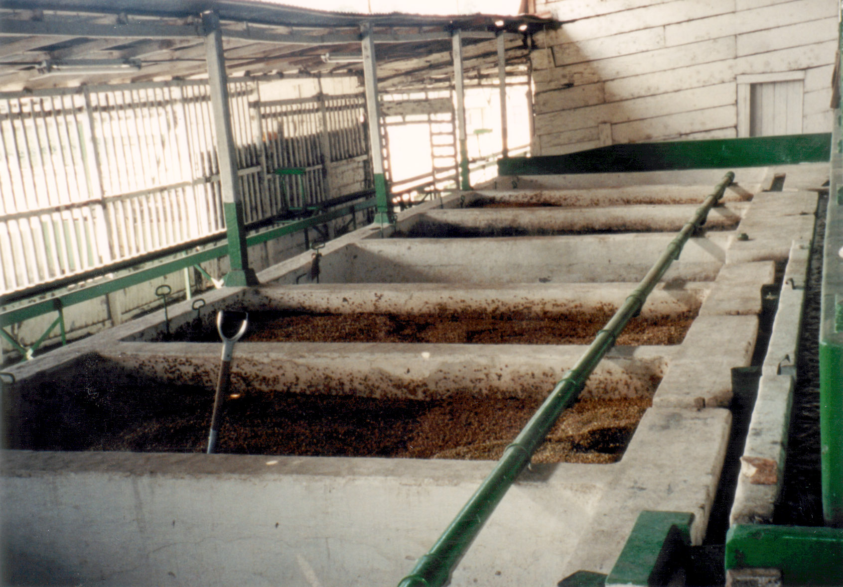 Coffee Fermentation Bins